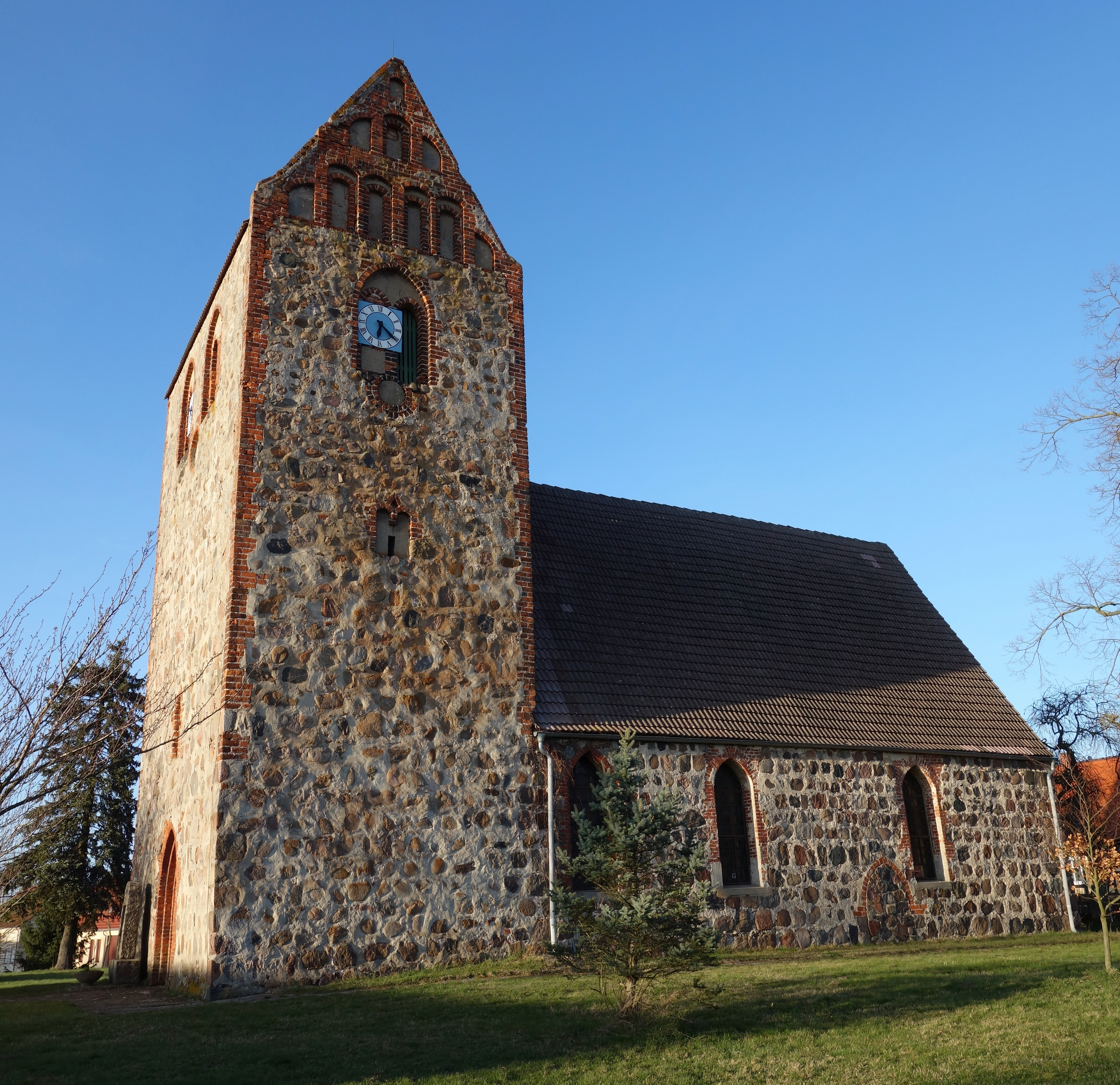 South-western view of church in Schrepkow, Gumtow municipality, Prignitz district, Brandenburg state, Germany